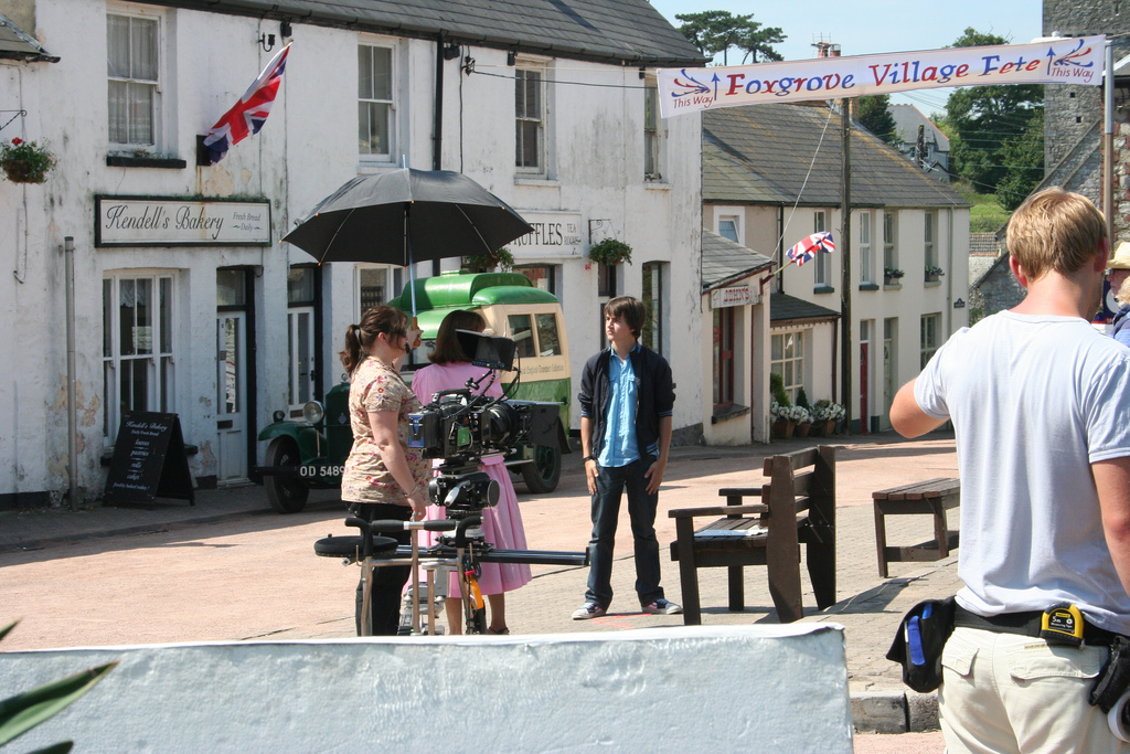 Picture canon including tw 065